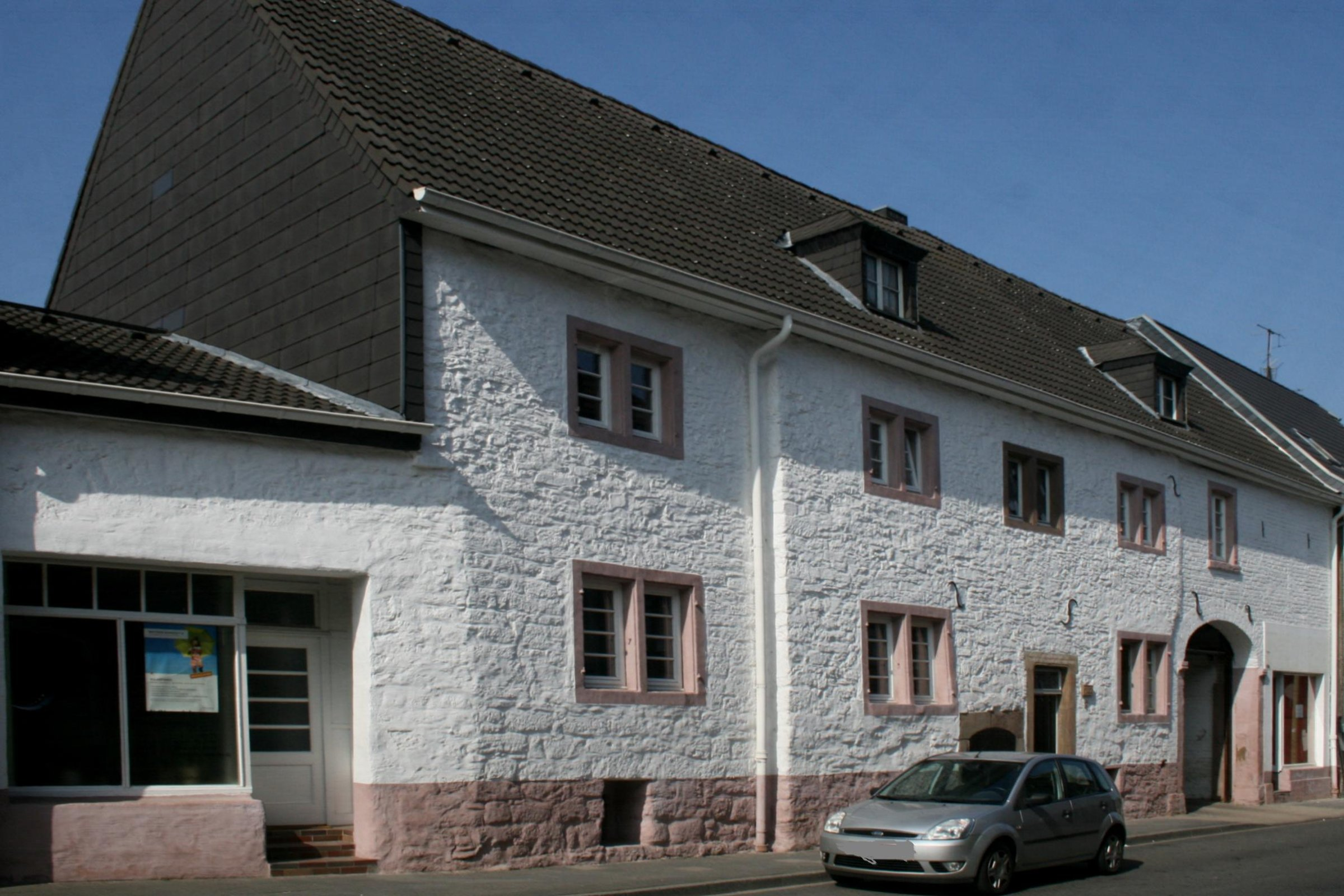 Cultural heritage monument No. 3/003 in Düren